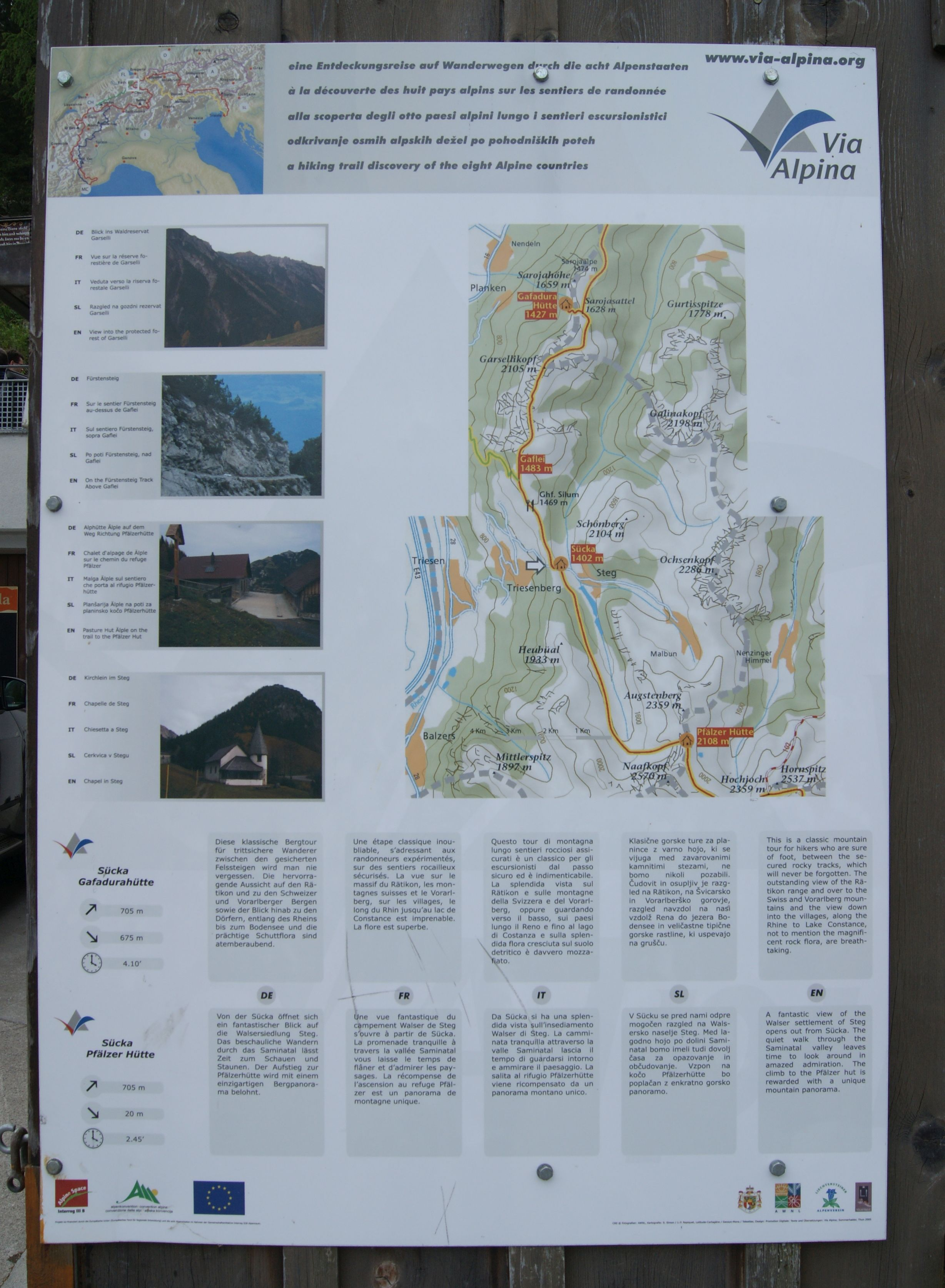 Steg in the Principality of Liechtenstein. Hiking map of Via Alpina.